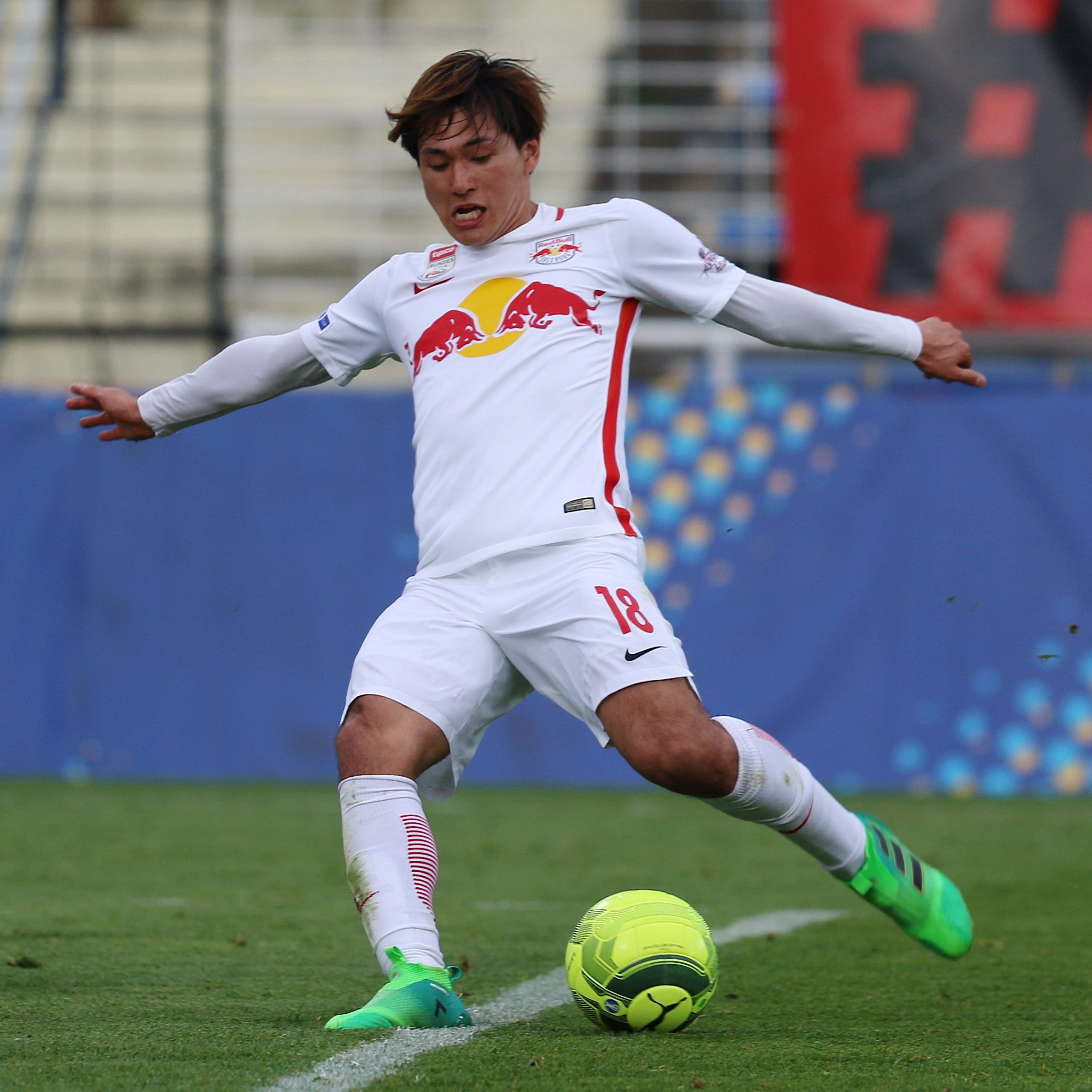 2016–17 Austrian Cup: FC Admira Wacker Mödling (red shirts) vs. FC Red Bull Salzburg (white shirts) at 26. April 2017 in the BSFZ-Arena in Maria Enzersdorf 0:5 (0:2) – The photo shows Takumi Minamino